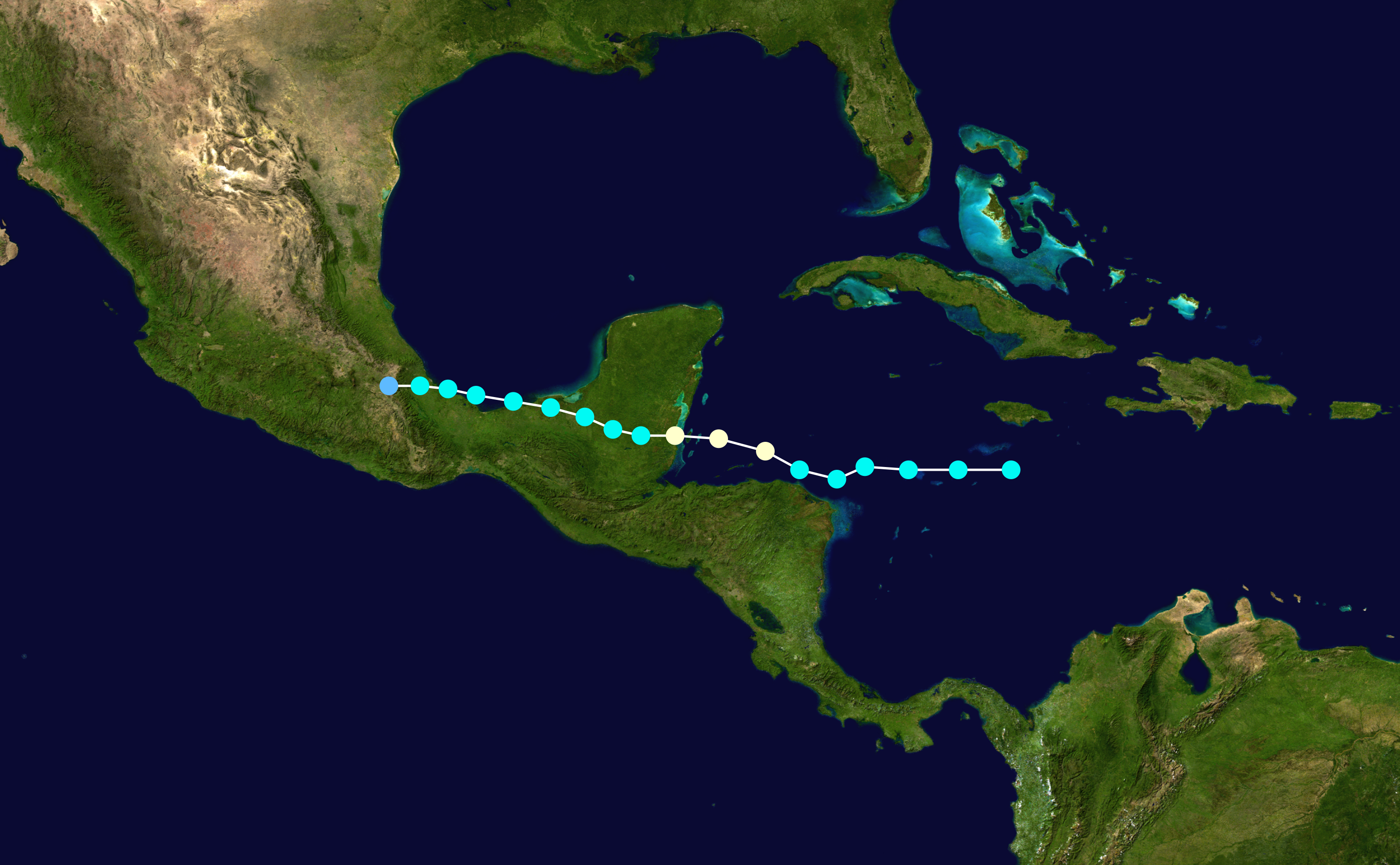 Track map of Hurricane Earl of the 2016 Atlantic hurricane season. The points show the location of the storm at 6-hour intervals. The colour represents the storm's maximum sustained wind speeds as classified in the Saffir–Simpson scale (see below), and the shape of the data points represent the nature of the storm, according to the legend below. Saffir–Simpson scale Tropical depression≤38 mph≤62 km/h Category 3111–129 mph178–208 km/h Tropical storm39–73 mph63–118 km/h Category 4130–156 mph209–251 km/h Category 174–95 mph119–153 km/h Category 5≥157 mph≥252 km/h Category 296–110 mph154–177 km/h Unknown Storm typeTropical cycloneSubtropical cycloneExtratropical cyclone / Remnant low / Tropical disturbance